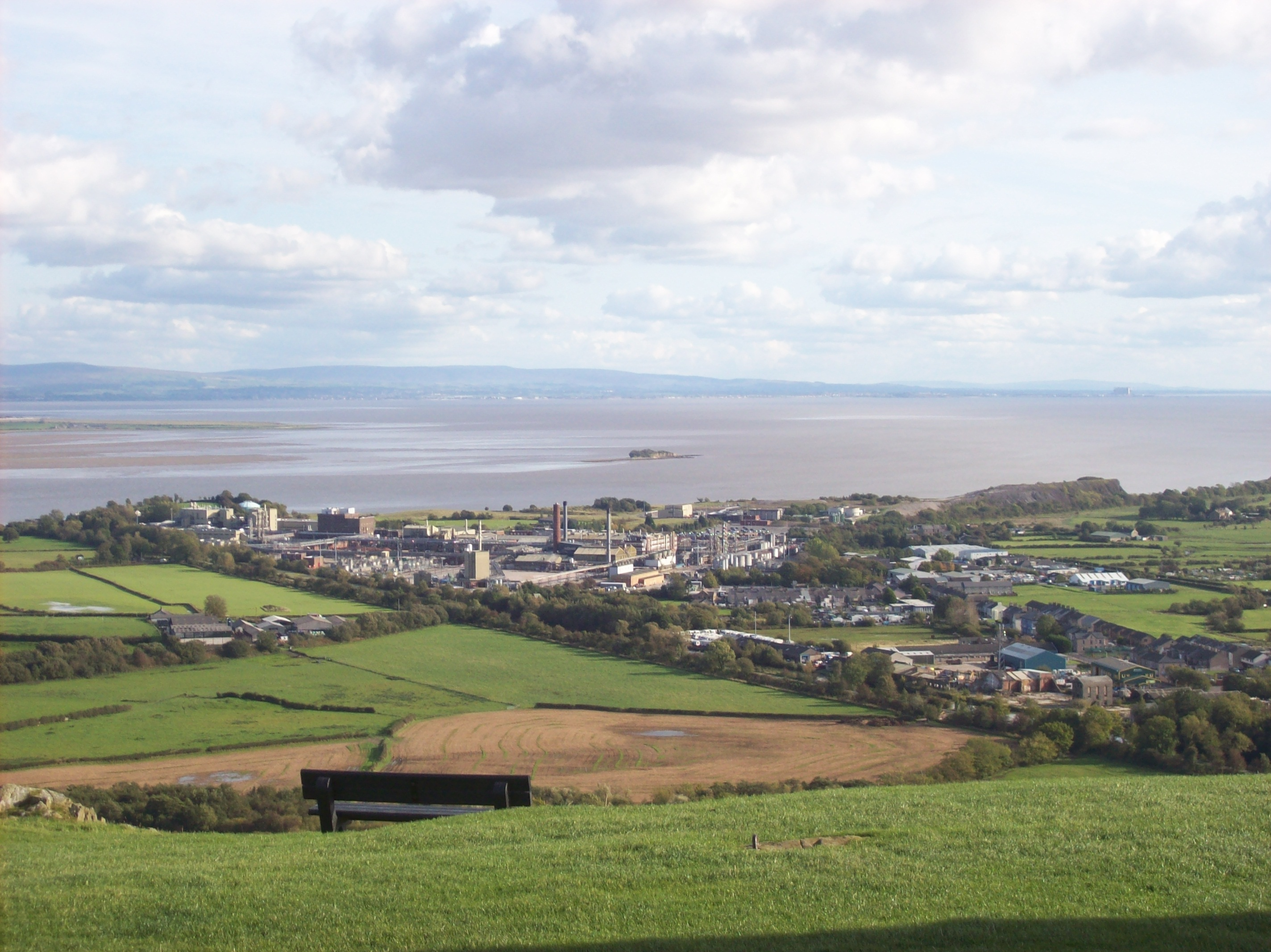 Morecambe Bay from Ulverston. Vantage point at the top of Hoad Hill. In the immediate foreground is some agricultural land. On the other side of Ulverston Canal is the industrial area, which is a GlaxoWellcome factory. Along the canal's banks are some abandoned buildings, some houses, and some caravans. The River Leven reaches the ocean here, thus becoming the Leven estuary. The small island is Chapel Island. At the centre-far-right is a small rectangle, we call that Morecambe.